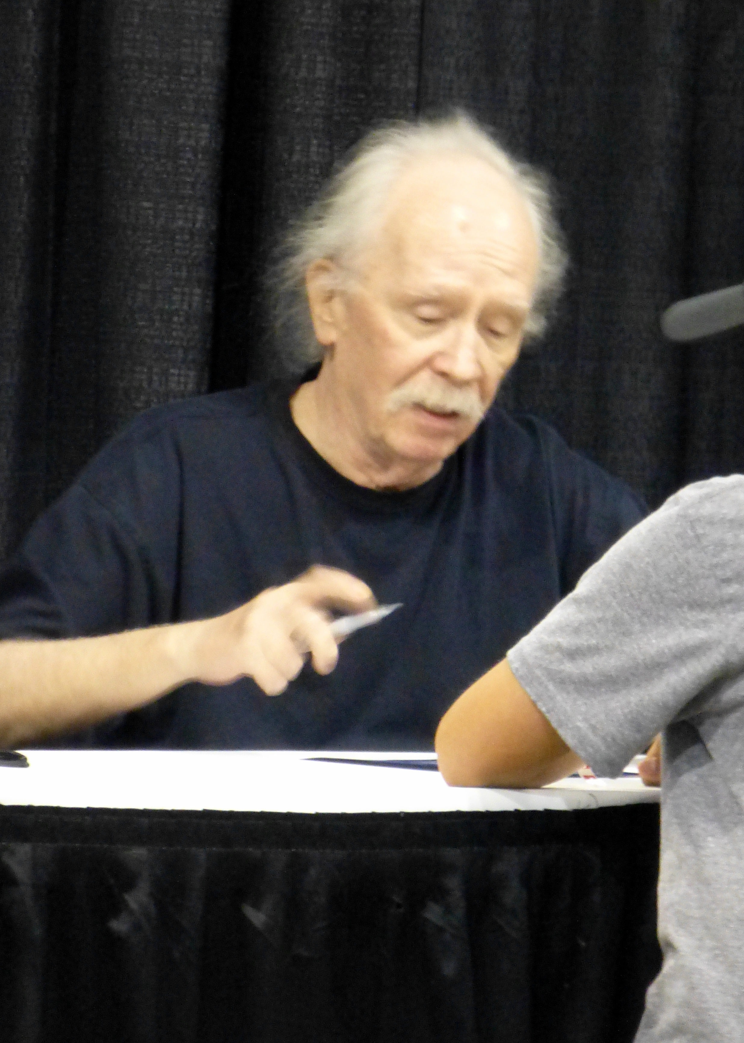 Guest at the 2014 Wizard World Chicago.